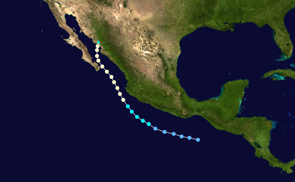 Hurricane Newton (1986) track. Uses the color scheme from the Saffir-Simpson Hurricane Scale.